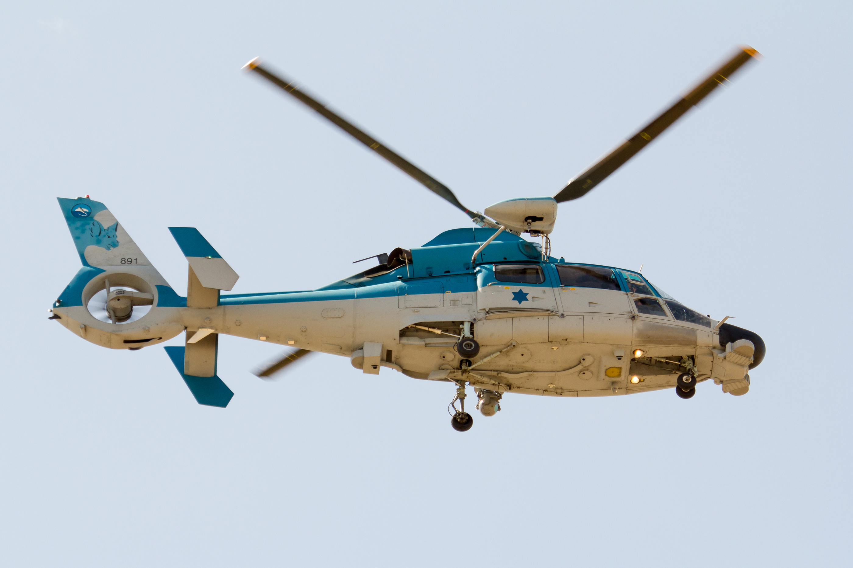 Israeli Air Force Squadron 193 Eurocopter Panther over Ramat David AFB on Israel's 69th Independence Day.